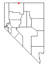 Map of Nevada, with a location dot on McDermitt, Nevada